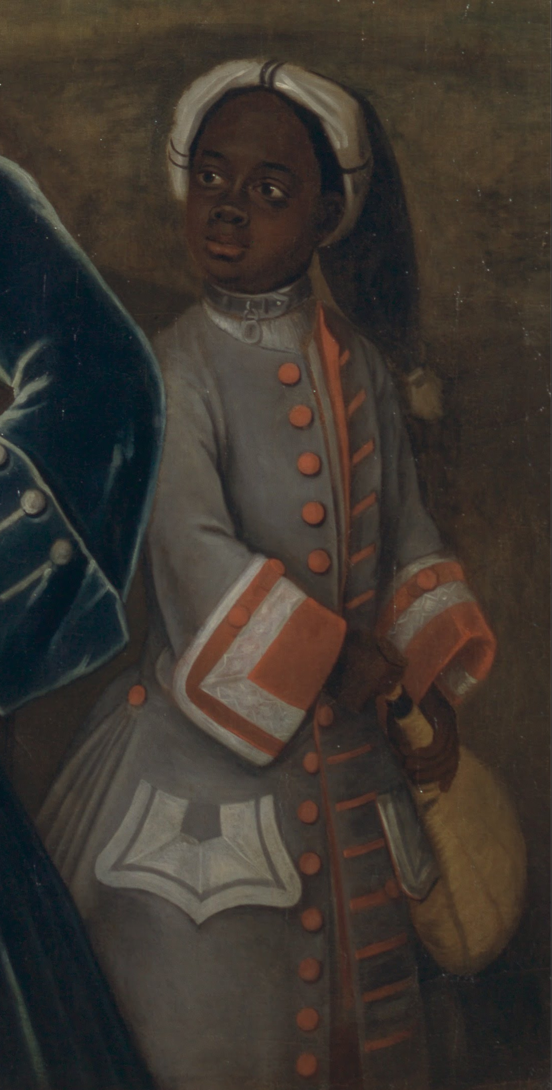 Conversation piece showing the 2nd Duke of Devonshire (at left, in red), Lord James Cavendish (standing, in brown), Elihu Yale (center, in purple), and Mr. Tunstal, lounging in a loggia with long pipes and wine, with a Page, and children playing in the background.